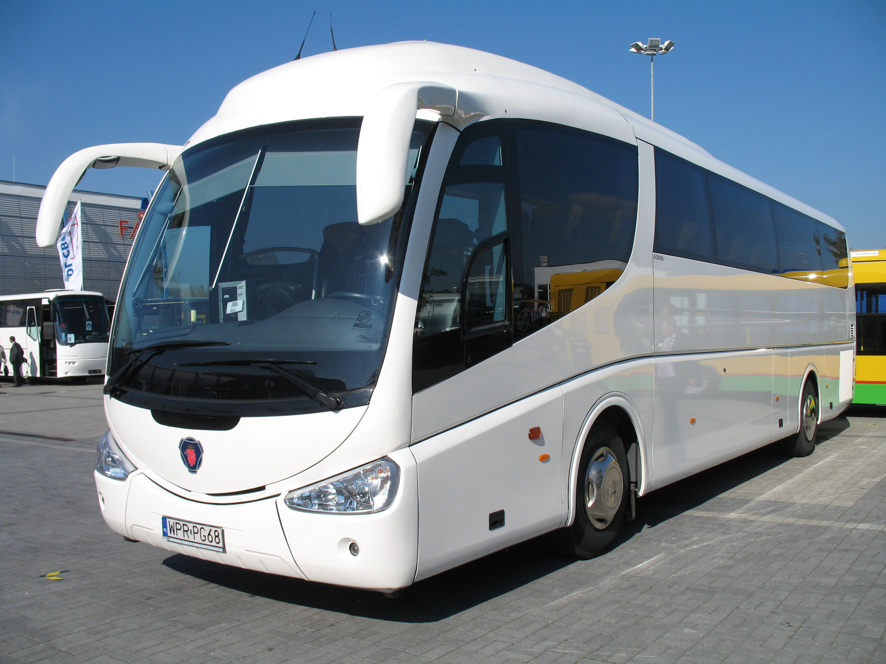 Irizar PB coach (reg. WPR PG68) with Scania chassis in Kielce, Poland. Built 2009.